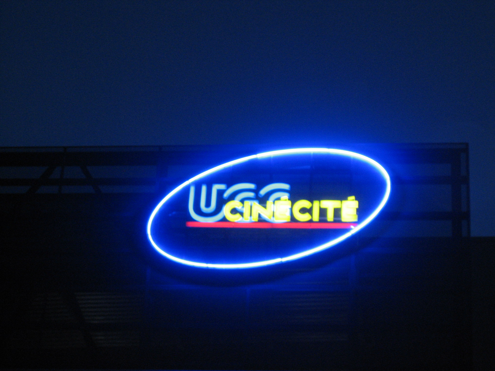 Logo of the cinema operator "UCG Ciné Cité" from their complex in SXB (Strasbourg)